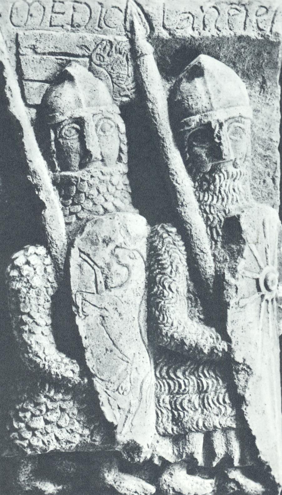 INFANTRY – DETAIL FROM THE BAS-RELIEF OF PORTA ROMANA – YEAR 1171 – CITY MUSEUM, MILAN